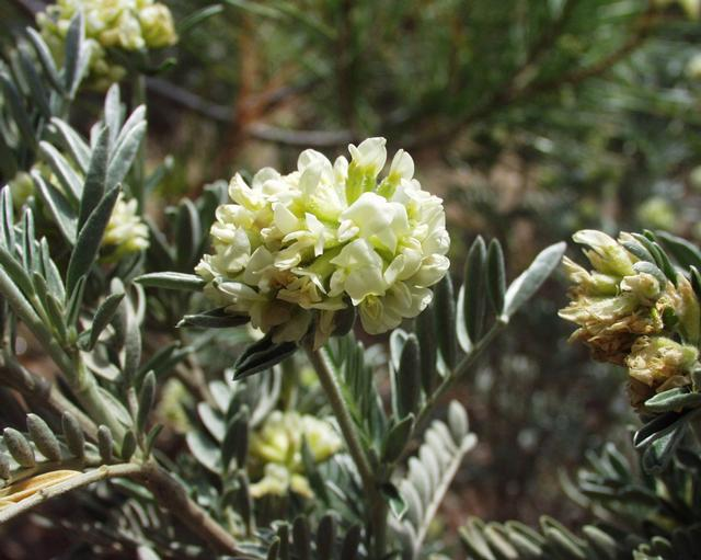 (en) Anthyllis barba-jovis, a photography originating of the internet site The accord of the autor, H. Brisse, is here. (fr) Barbe-de-Jupiter (Anthyllis barba-jovis), une photographie issue du site internet L'accord de l'auteur, H. Brisse, se situe ici. (de)Jupiters Bart, (it)Vulneraria barba-di-Giove